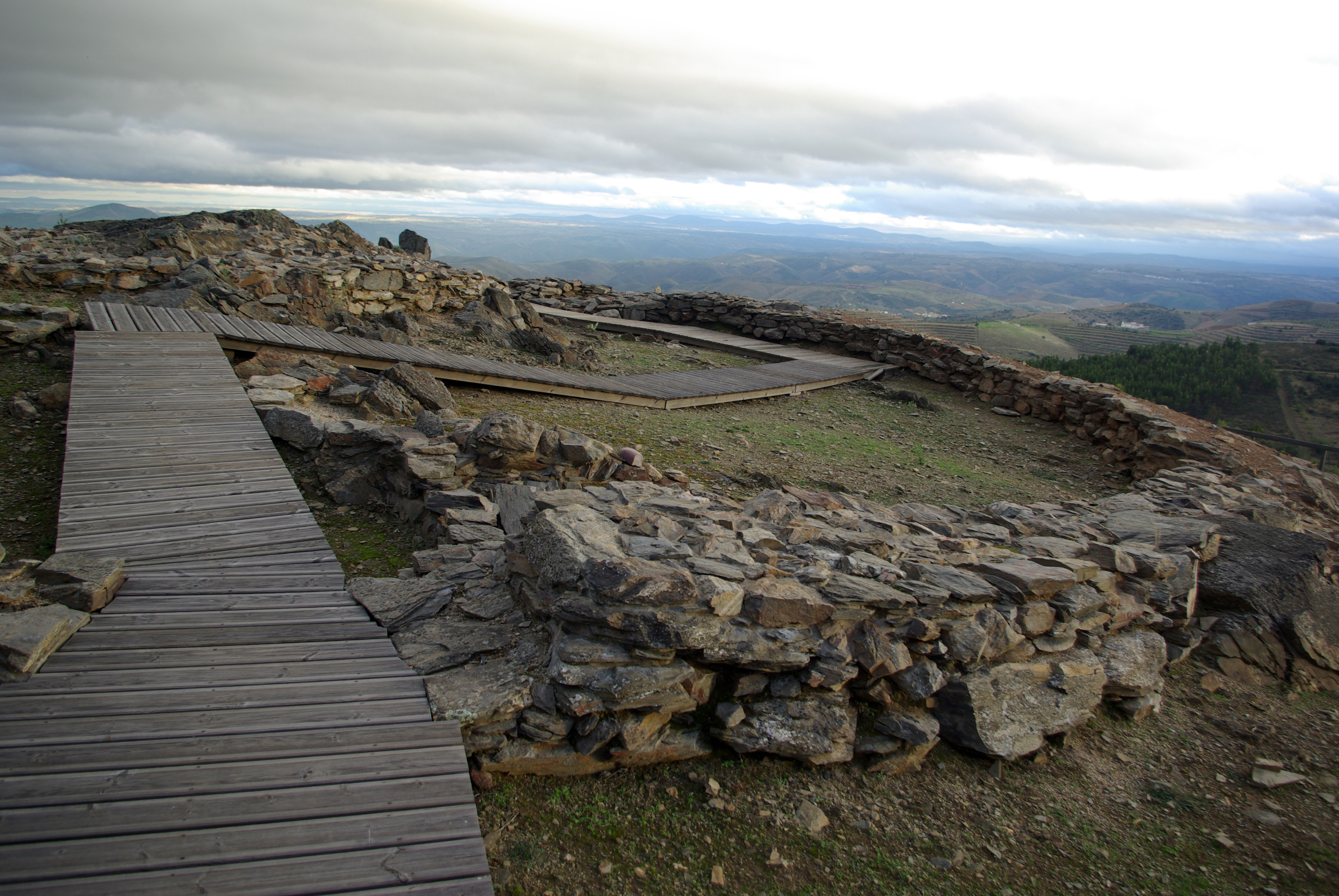 Hill fort of Castelo Velho in Freixo de Numão (Guarda, Portugal).